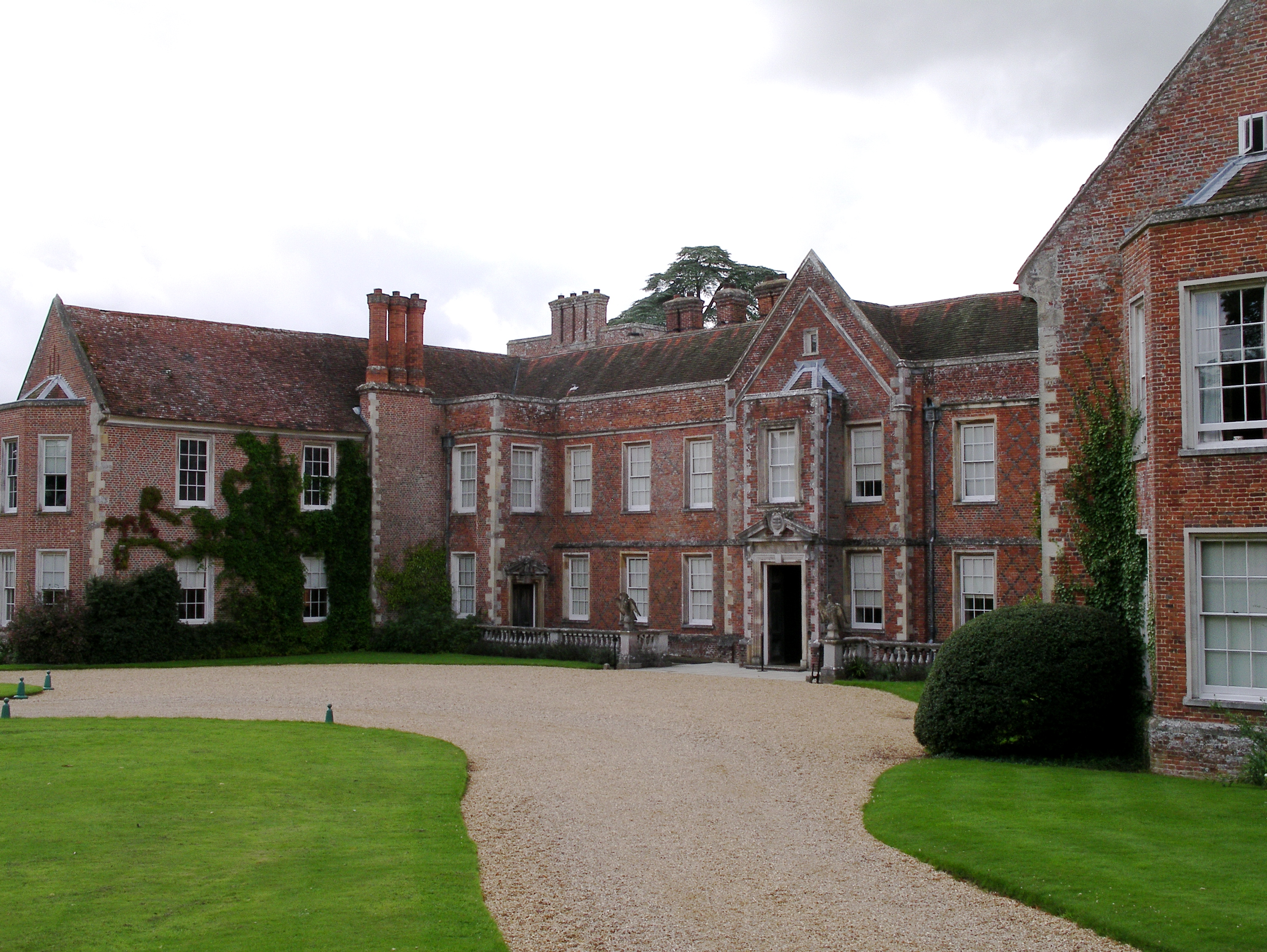 The Vyne